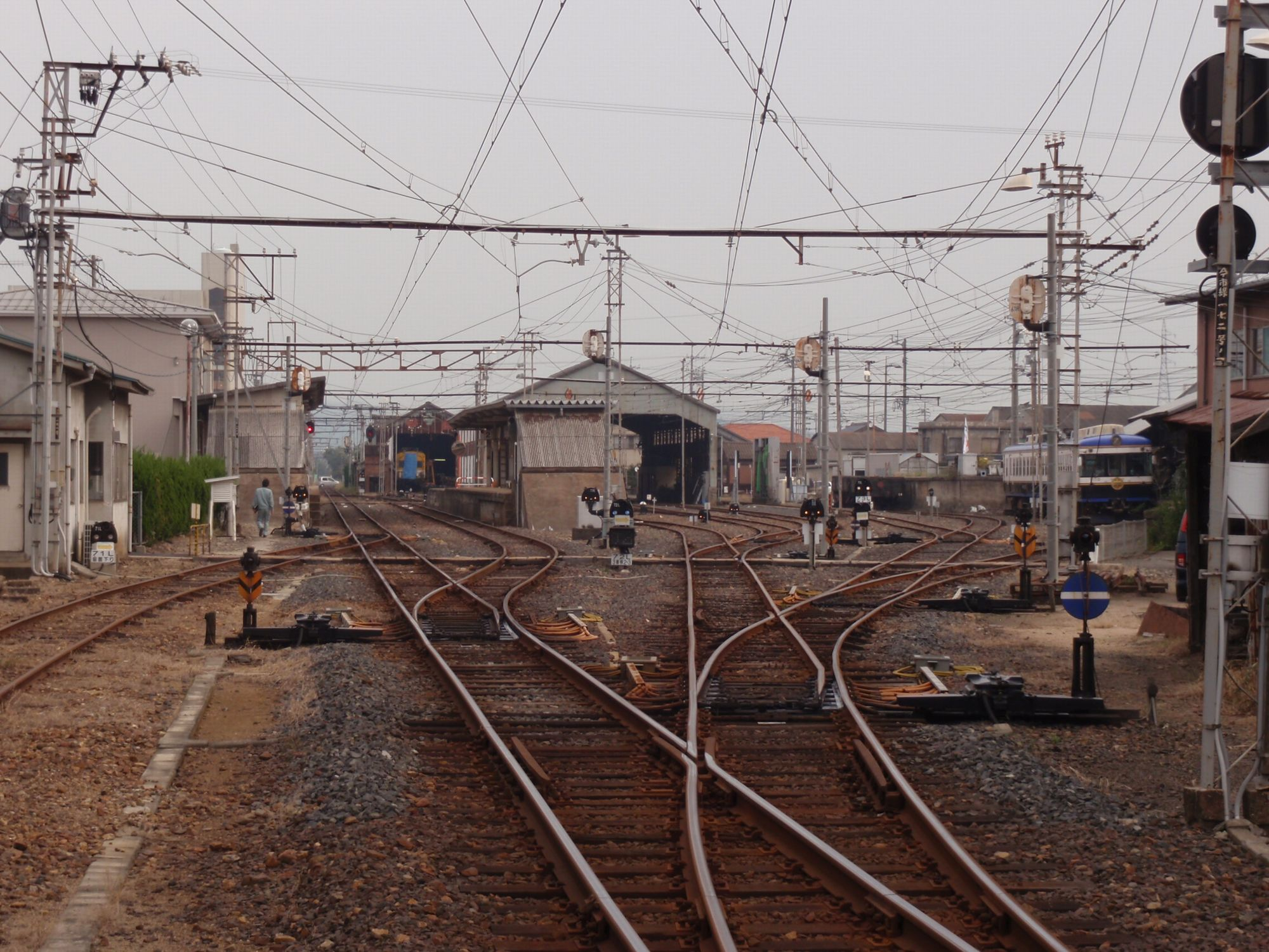 Ichibata Electric Railway Unshu-Hirata Station